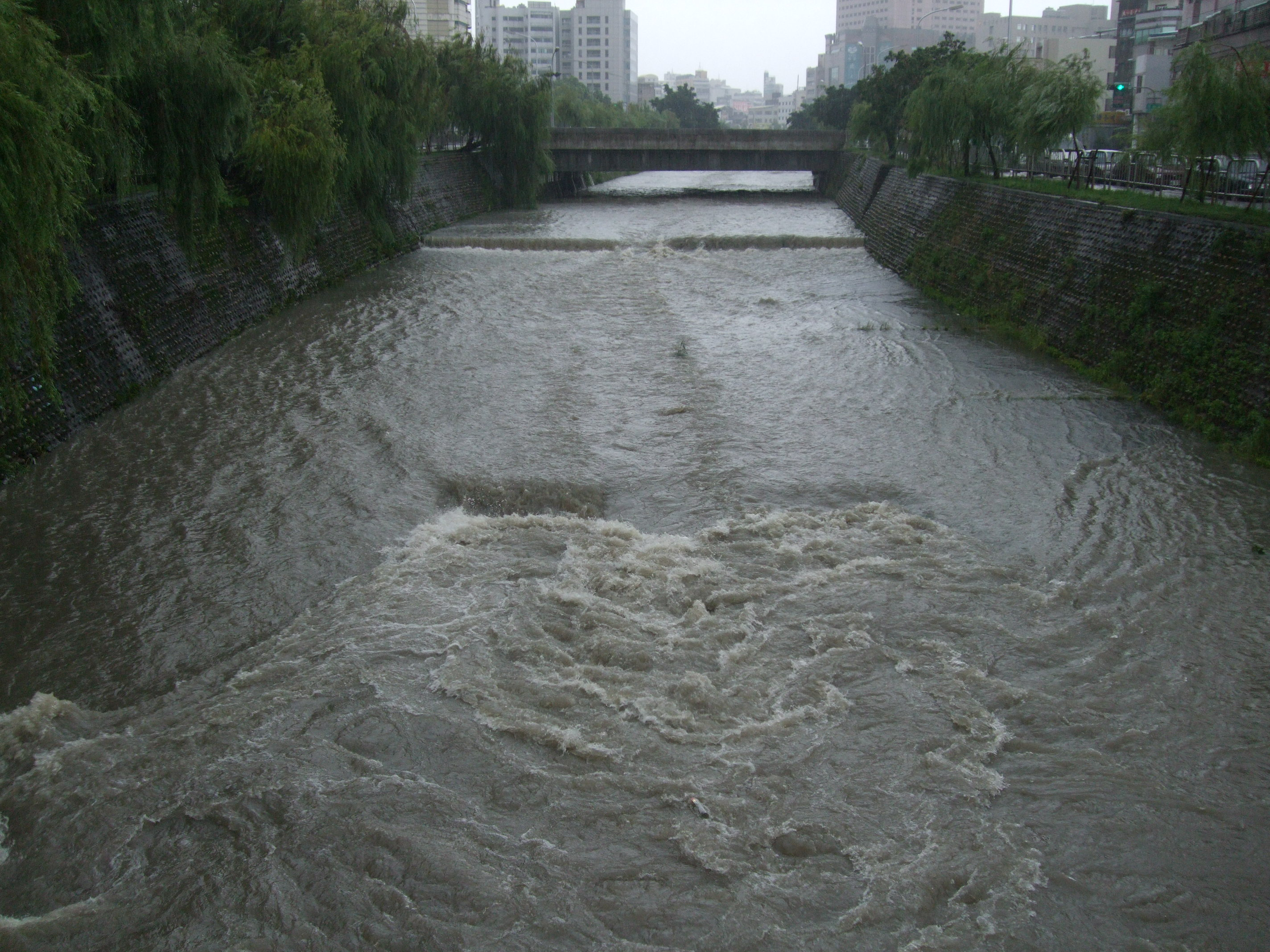 Liu River in downtown Taichung,Taiwan raging during the height of Tropical Storm Kalmaegi on July 18, 2008. Normally, water is restricted within a narrow channel cut into the bottom of the river. This is the highest I have ever seen this river.